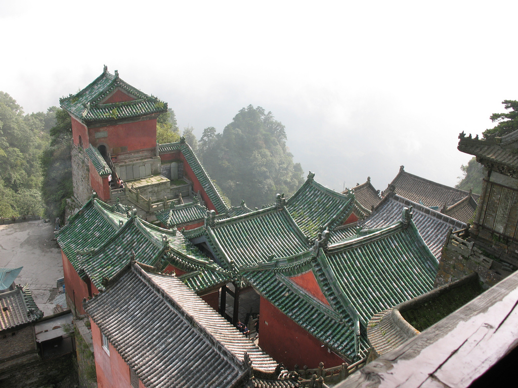 Taoist monastery at the top of Wudang Mountains — in China.